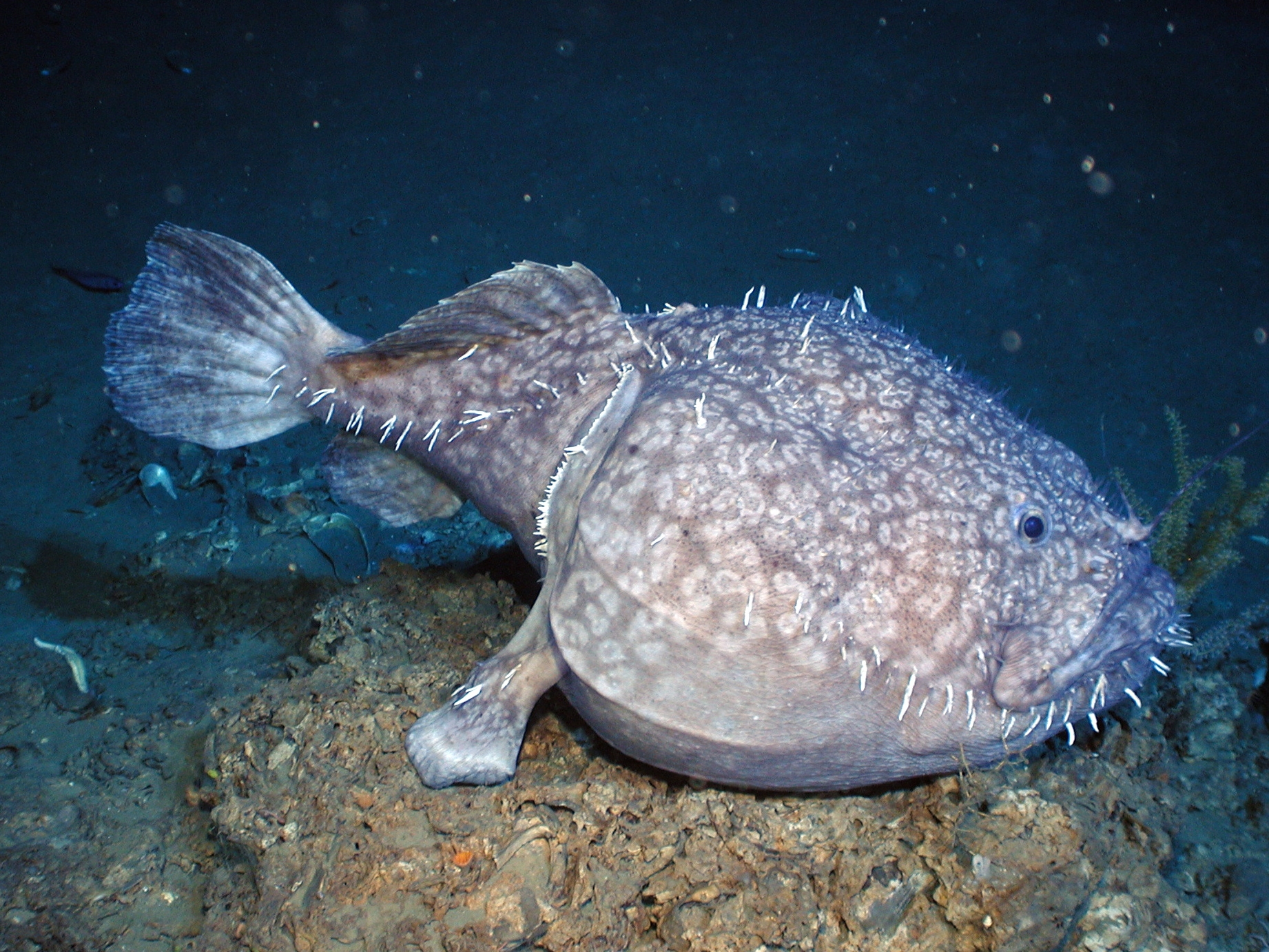 Sladenia shaefersi during Operation Deep Slope 2007